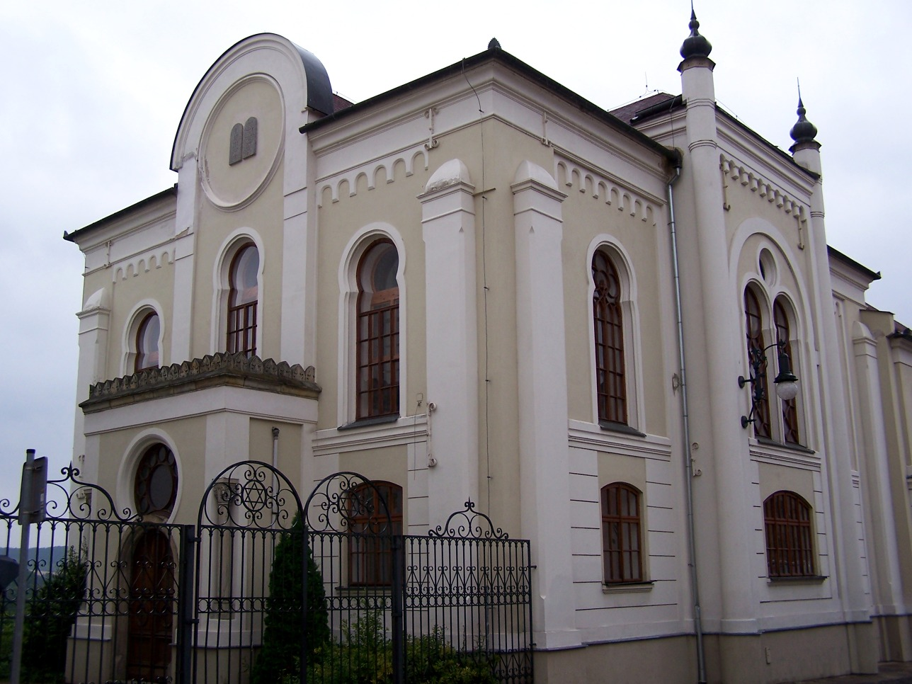 Synagogue in Louny, Czech Republic